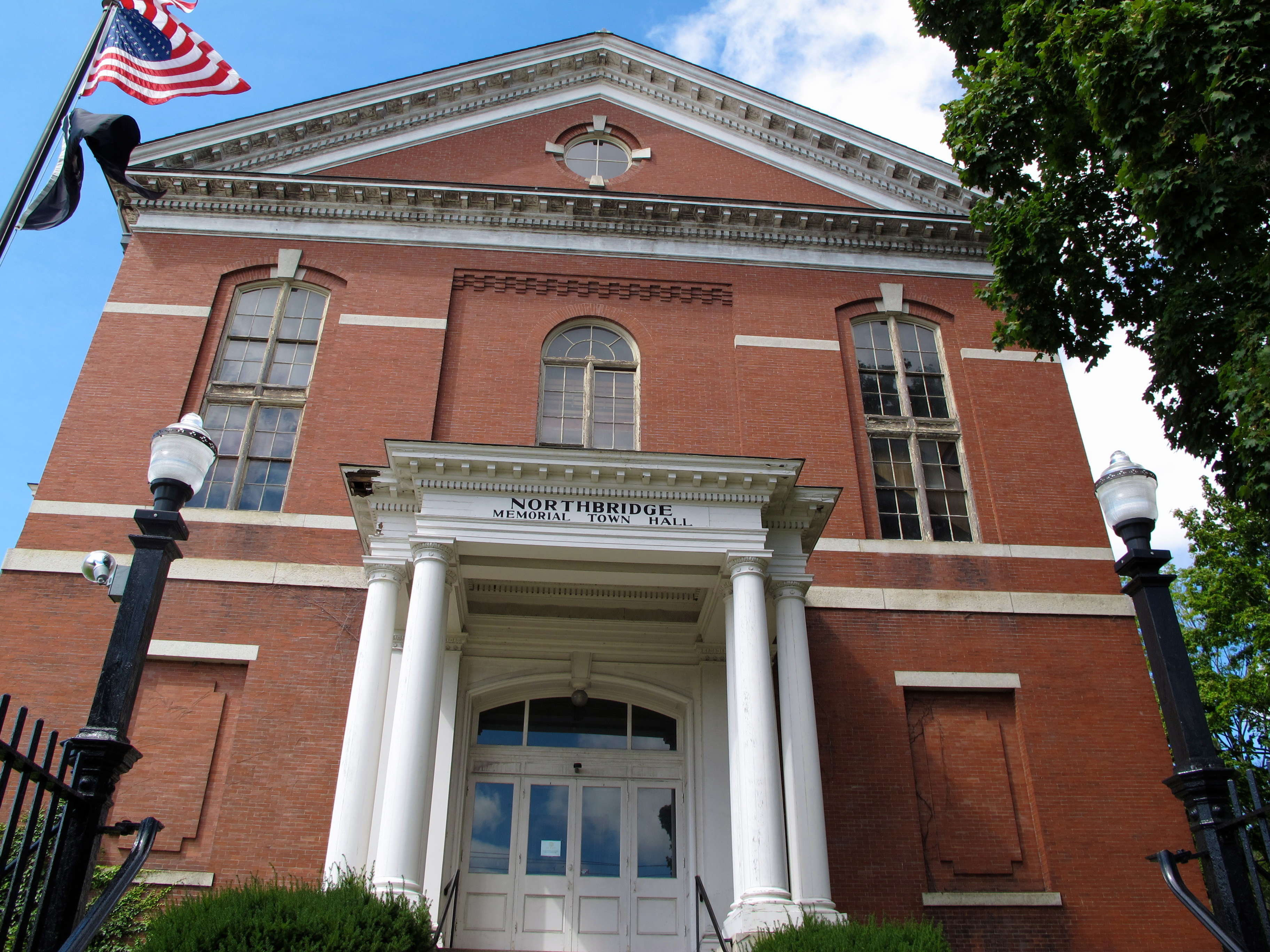 Whitinsville Historic District